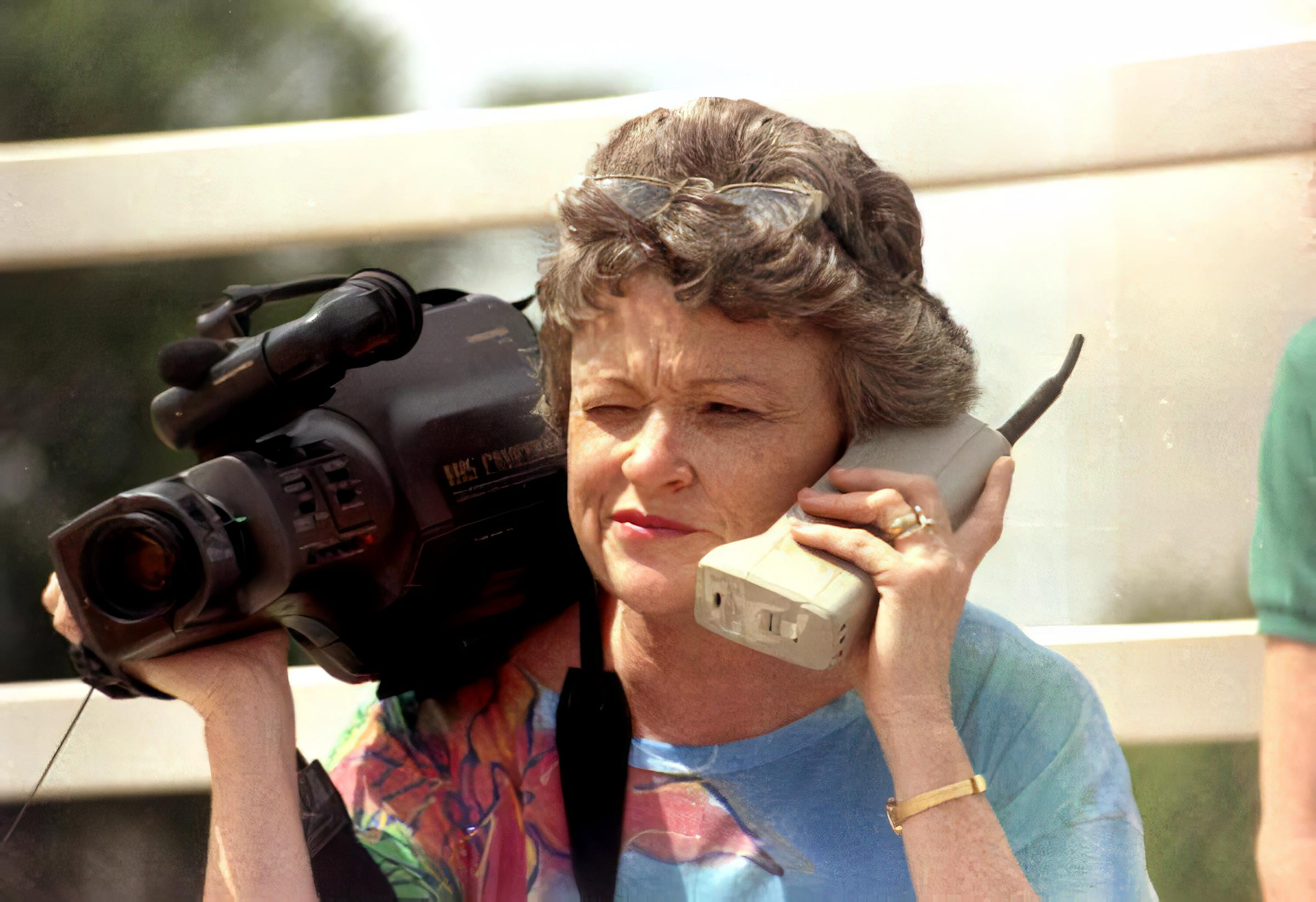 Local call number: DND0902 Title: Journalist Lucy Morgan with video camera and phone Date: ca. 1985 General note: Lucy W. Morgan was born in 1940, and began her career in 1965 as a general reporter for the Ocala Star-Banner. In 1968, she joined the St. Petersburg Times, where in 1986 she was appointed Chief of the paper's Capital Bureau in Tallahassee. A recipient of numerous awards, her career was highlighted by winning the 1985 Pulitzer Prize (along with fellow reporter Jack Reed) for investigative reporting. In 2005, at the end of the legislative session, the Florida Senate honored her by renaming their press gallery the Lucy Morgan Senate Press Gallery for her 20 years of reporting on the Legislature. On March 14, 2006 she was inducted into the Florida Women's Hall of Fame. Physical descrip: 1 photonegative - col. - 35 mm. Series Title: Repository: 500 S. Bronough St., Tallahassee, FL 32399-0250 USA. Contact: 850.245.6700. Persistent URL: Visit Florida Memory to find resources for and to learn more about the